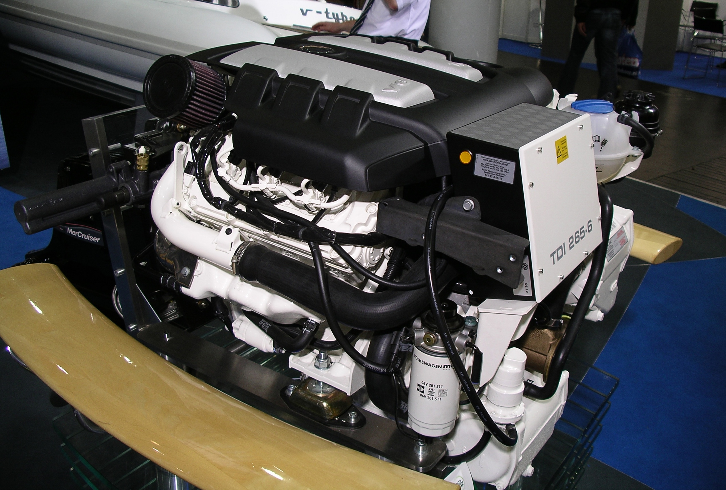 A Volkswagen Group Marine engine - a 3.0 litre V6 Turbocharged Direct Injection diesel engine, ID code CEZA, producing 195 kW (265 PS) at 4,200 rpm, and torque of 550 Nm at 2,000 rpm